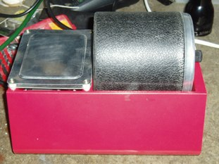 A ball mill from United Nuclear. Took the picture myself.